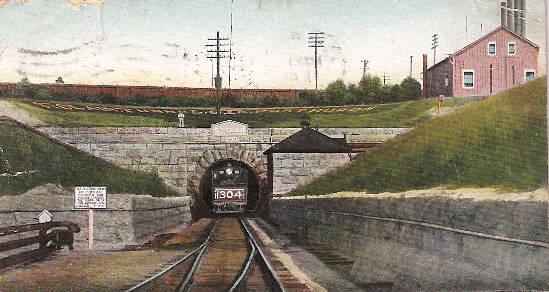 Postcard of the west end St. Clair River Tunnel in Port Huron, Michigan, United States. The east end is in Sarnia, Ontario, Canada. The tunnel was designated a Civil Engineering Landmark by both the Canadian and the American Societies of Civil Engineers (CSCE and ASCE) in 1991. The tunnel is a designated US National Historic Landmark, and is listed on the US National Register of Historic Places (NRHP). NRHP reference number 70000684